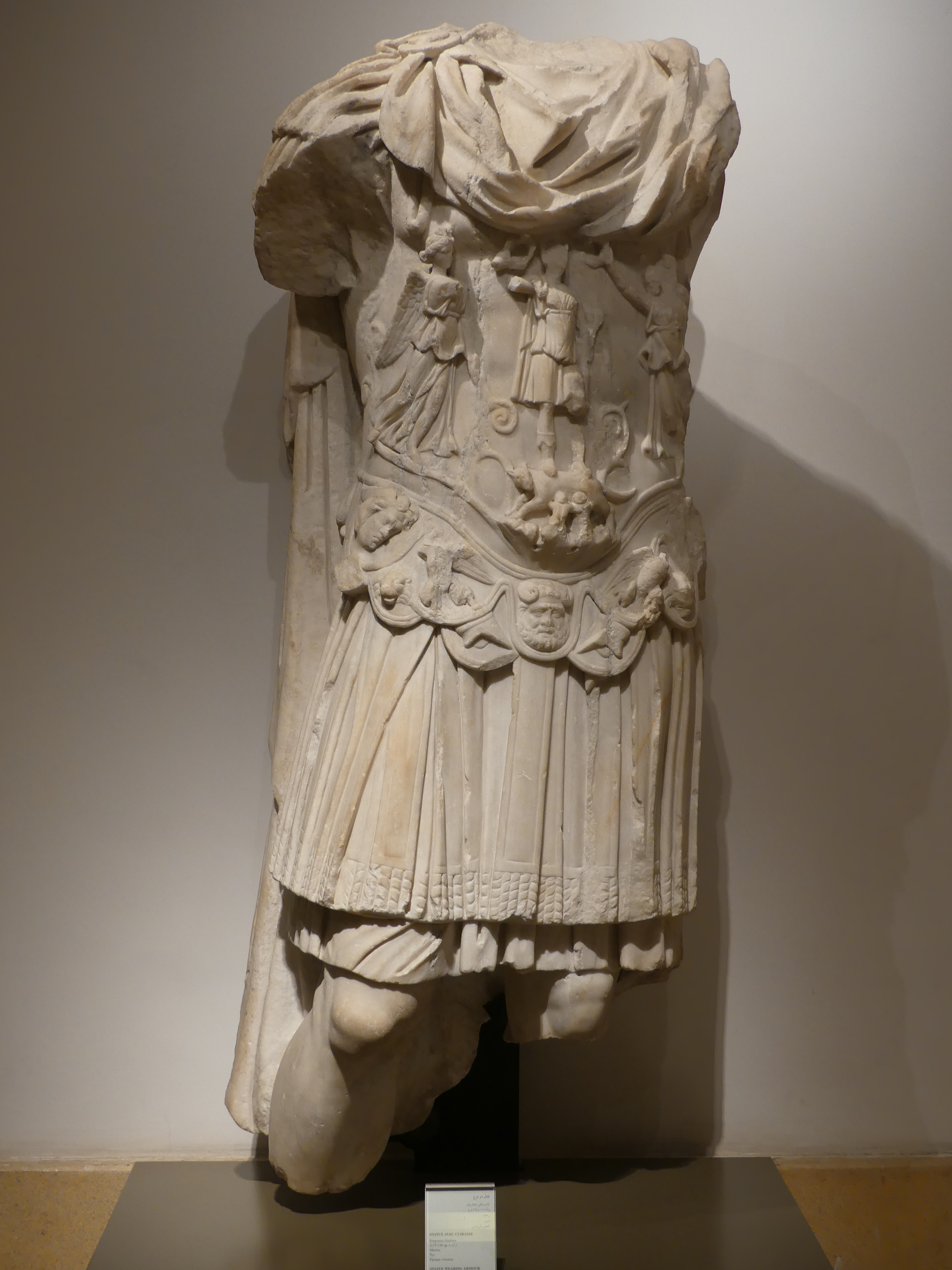 "STATUE WEARING AMOUR Emperor Hadrian (117-137 A.D.) Marble Tyre Roman Period" On display at the National Museum of Beirut, Lebanon